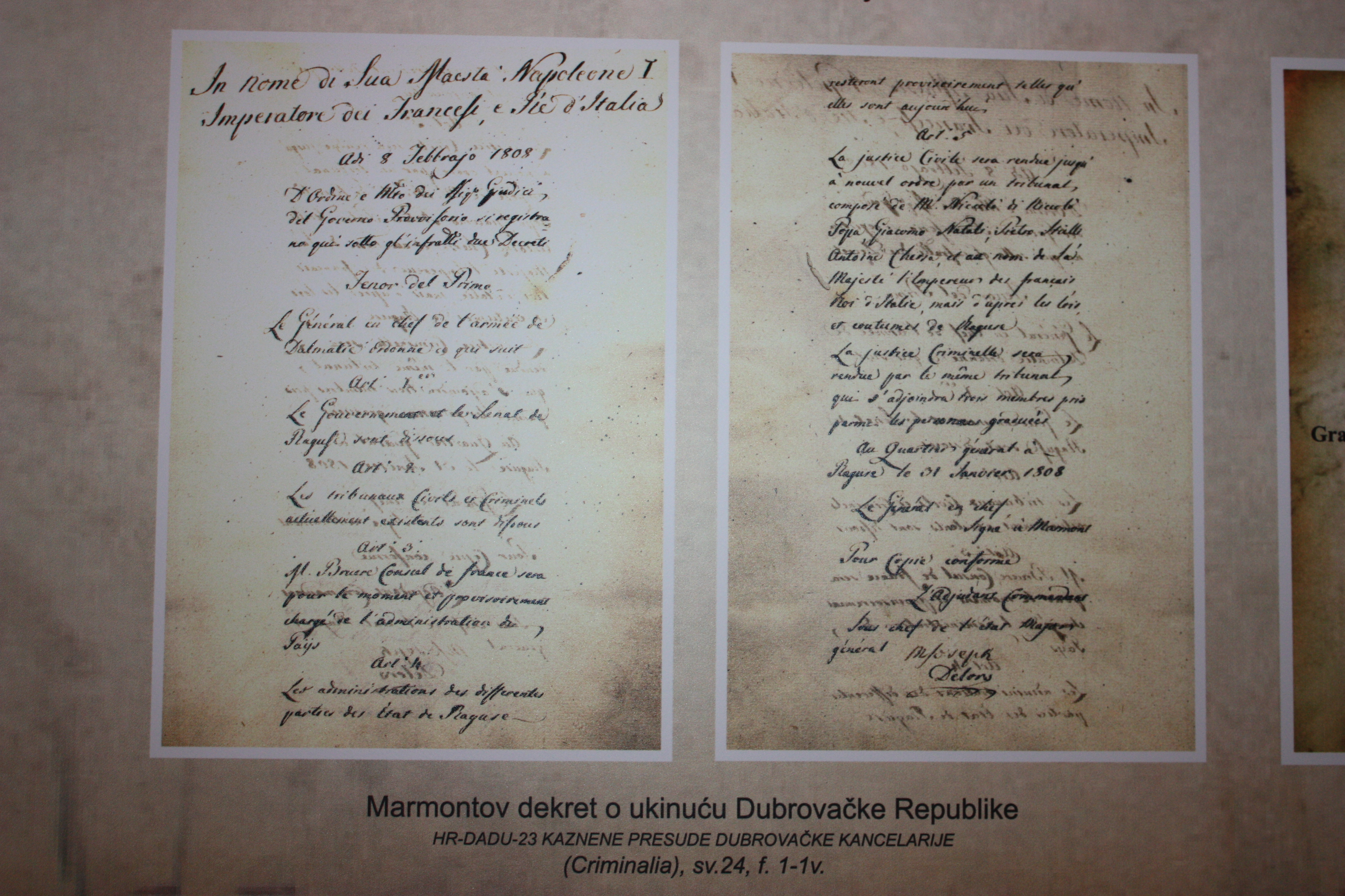 Marmont's decree of the abolition of the Republic of Dubrovnik